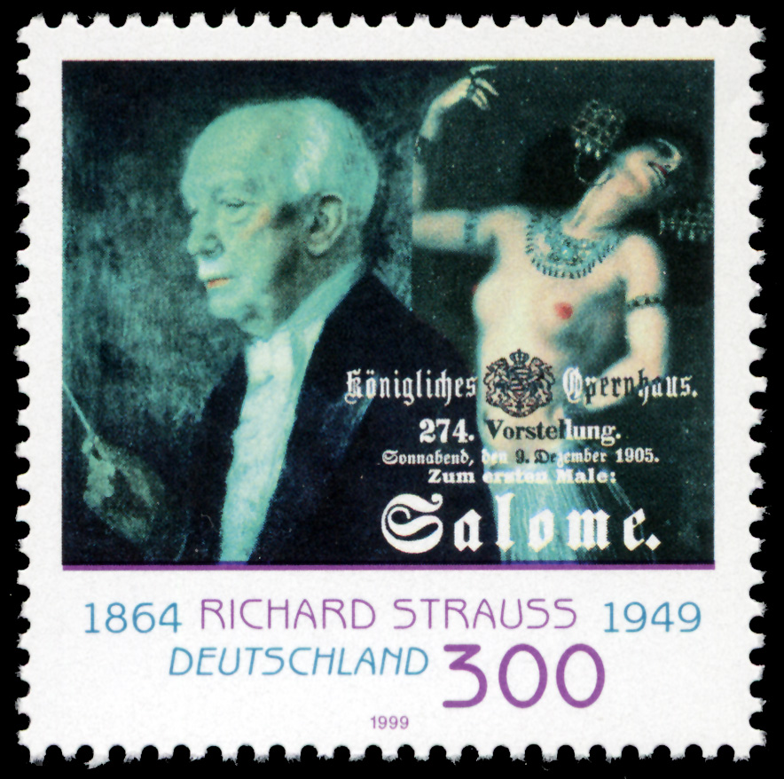 Stamp from Deutsche Post AG from 1999, 50th anniversary of the death of Richard Strauss